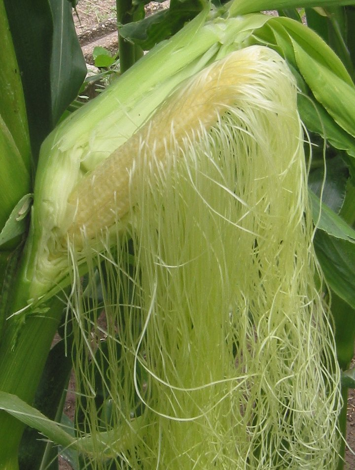 (nl: Suikermais bloeiende kolf) Zea mays convar saccharata